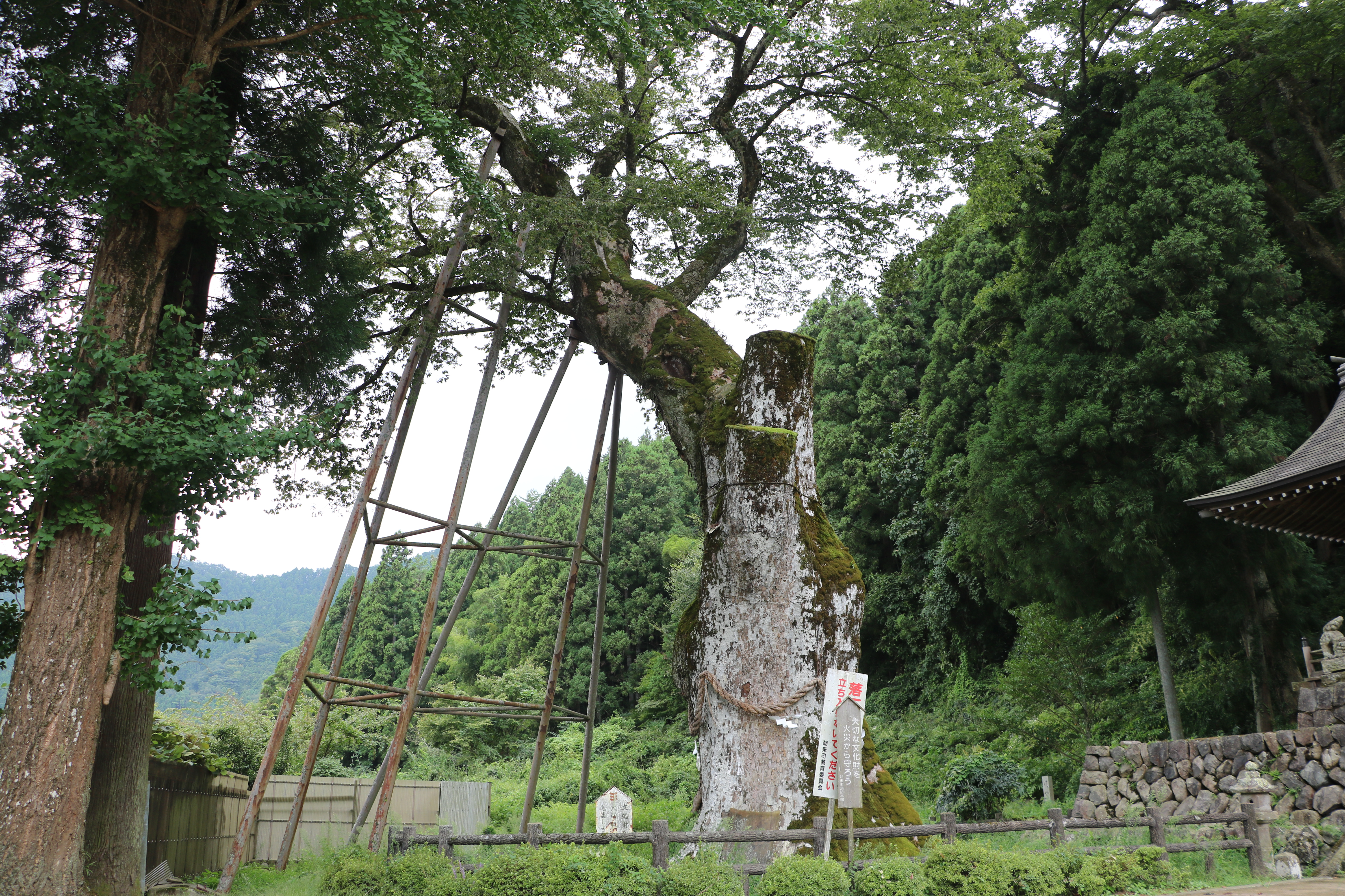 Yashiro-no-Okeyaki